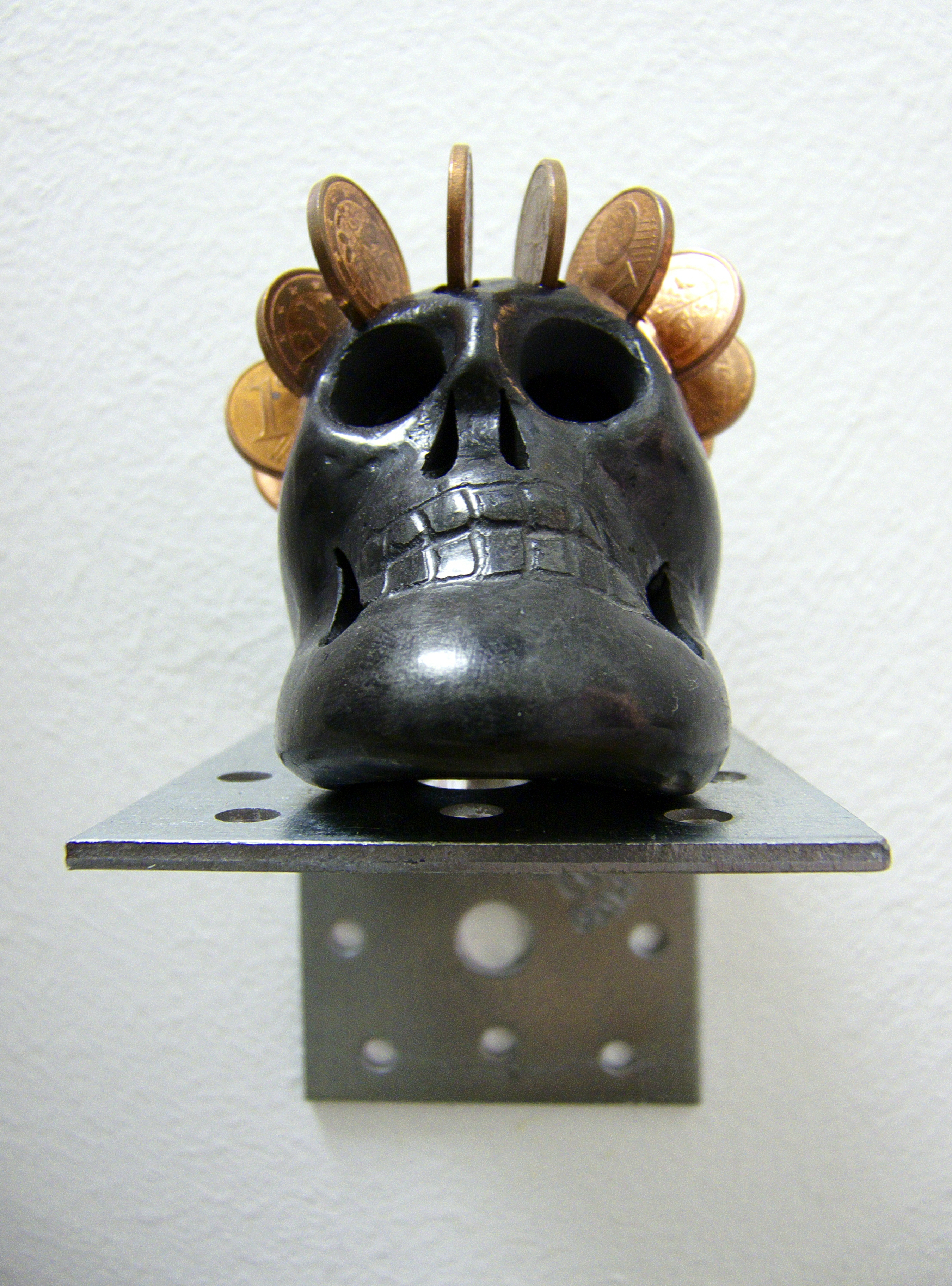 Not so sure the artist is the one mentioned in the title